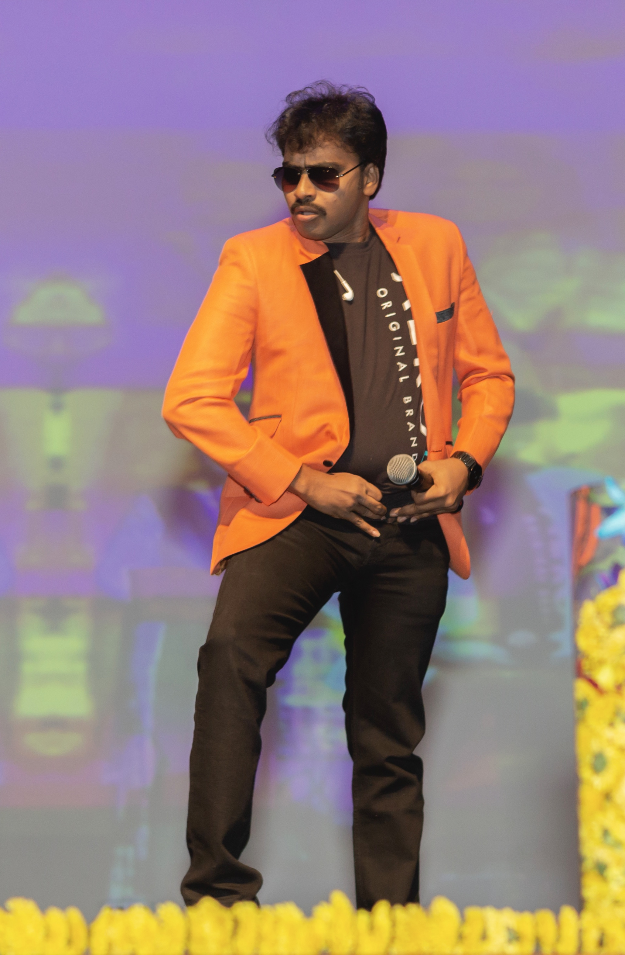 Singer Mallikarjun performing in Australia